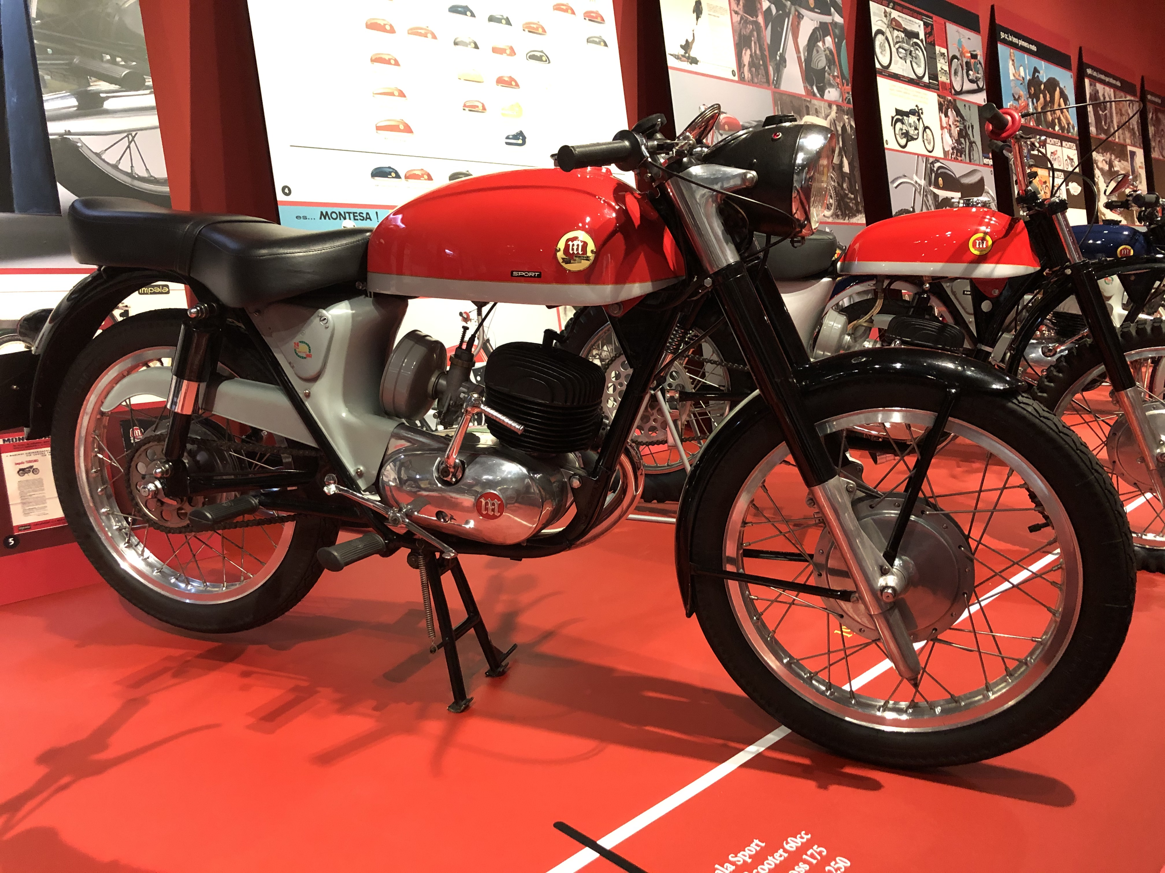 Montesa Impala Sport 175 (1963), Mod. 3M, 174.7 cc